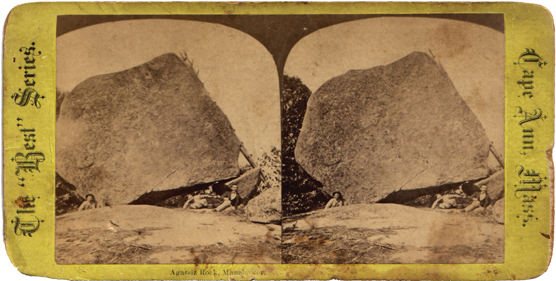 This is an 1870's stereoview that I own, so it has no copyright issues.